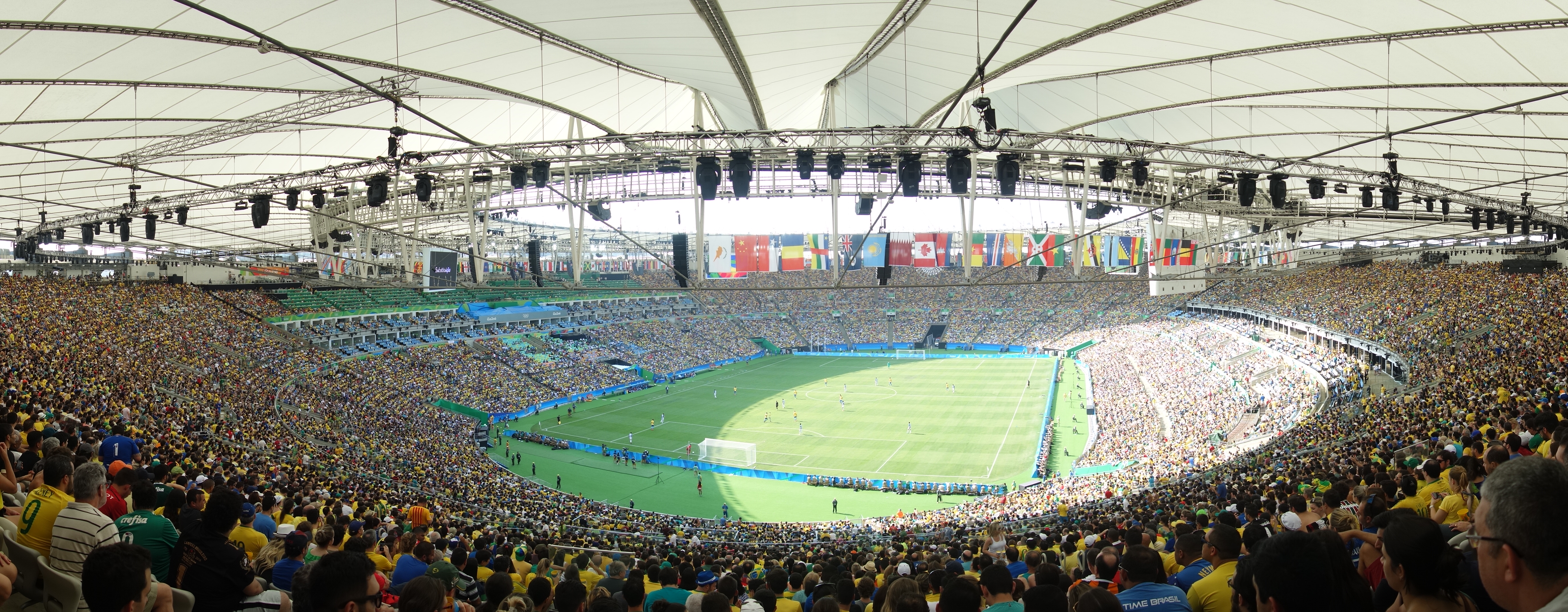 Brazil vs Honduras, semifinal, men's football tournament at the 2016 Summer Olympics, Maracanã Stadium, Rio de Janeiro, Brazil.